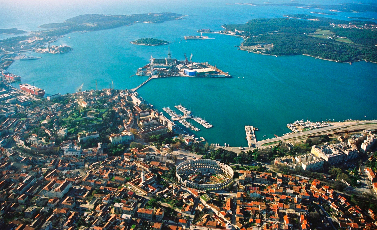 Aerial view of Pula, Croatia. The most notable object, on the bottom of the photo, is the Arena Amphiteathre. Left of it is the hill around which lies the Old Town. The wedge-shaped island in the middle of the bay is Uljanik, part of the shipyard. On the far top right the Brijuni islands (a National Park) can be seen.